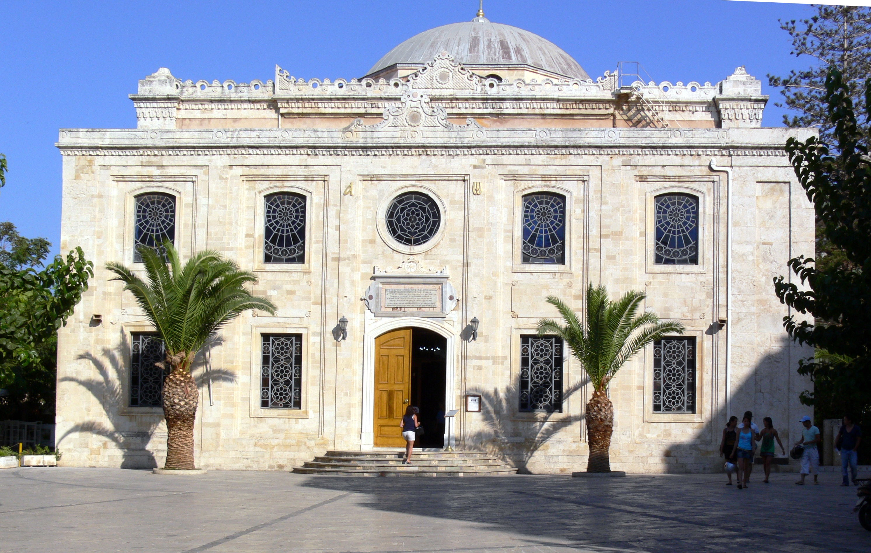 Heraklion (Crete, Greece): basilica of St Titus